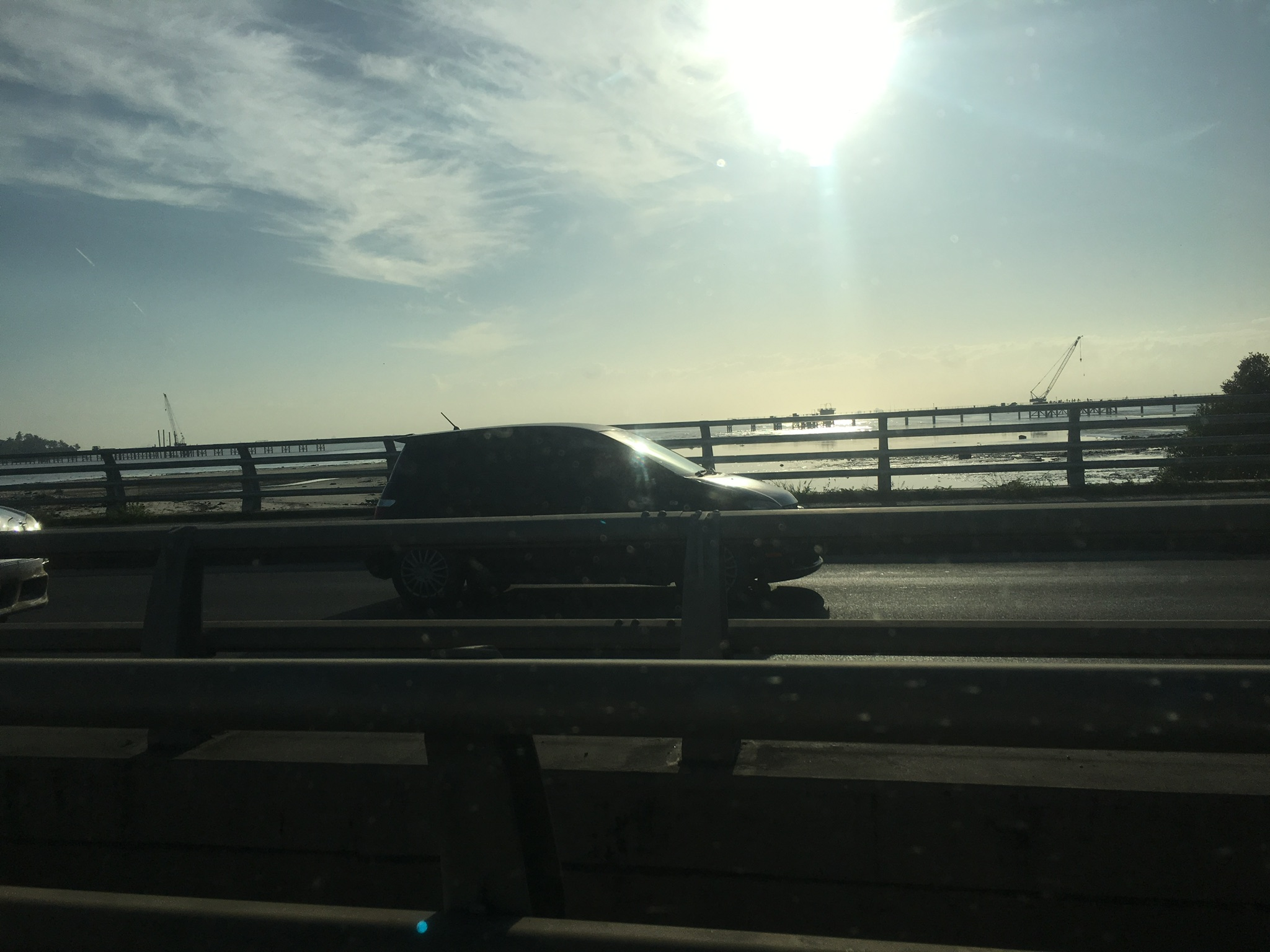 View along Selander Bridge